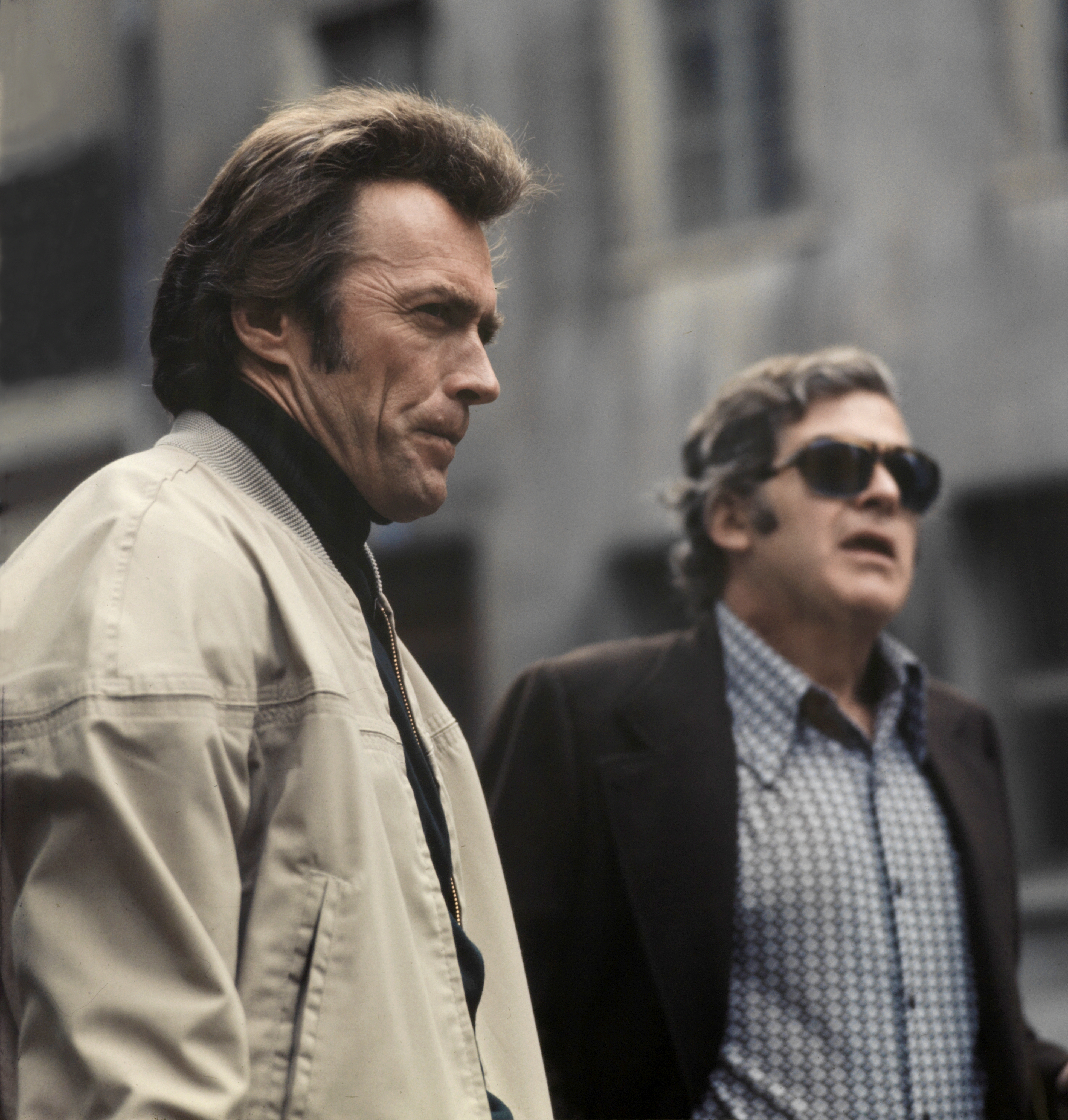 Film shoot with Clint Eastwood for "The Eiger Sanction" in Zurich, Switzerland